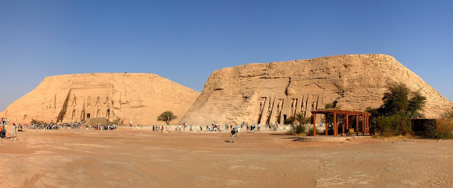 Abu Simbel - Great Temple of Ramesses II (left) and Small Temple of Nefertari (right)